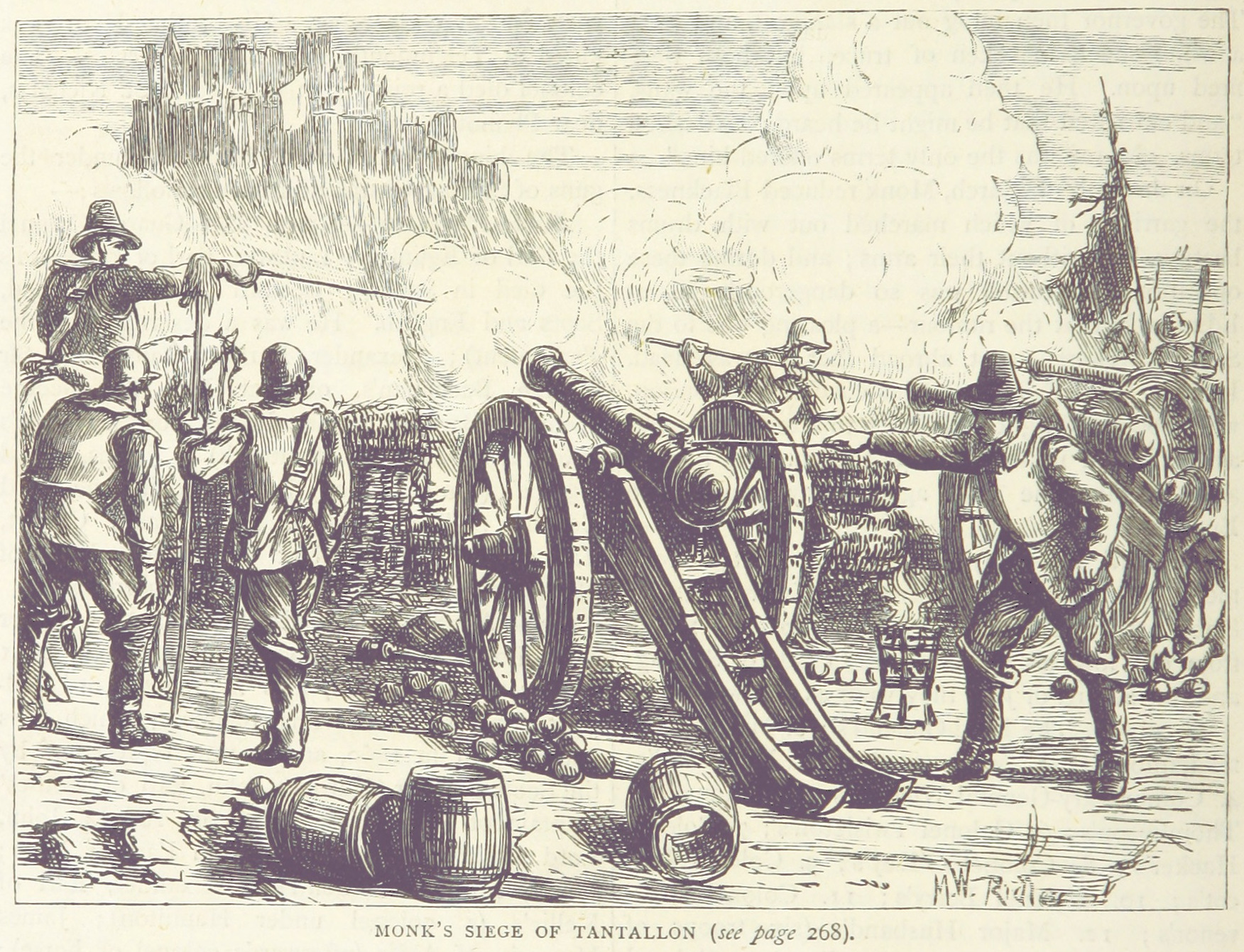 The 1651 siege of Tantallon Castle, which led to the ruin and abandonment of the castle.